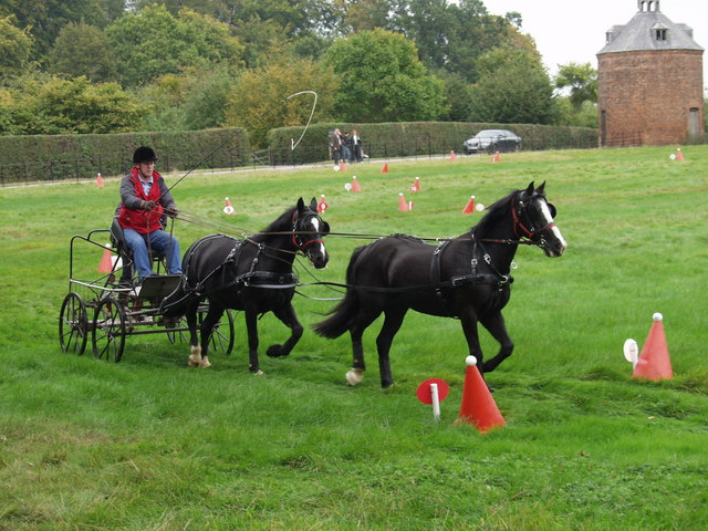 Carriage Driving in Erddig Park This carriage has "Tandem" horses. The Erddig Doocot can be seen in the background.